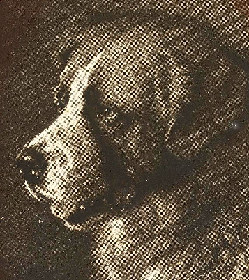 Bayard (nicknamed Barry), St. Bernard of the Bavarian sculptor Joseph Echteler, painted by Frank Paton, c. 1880s